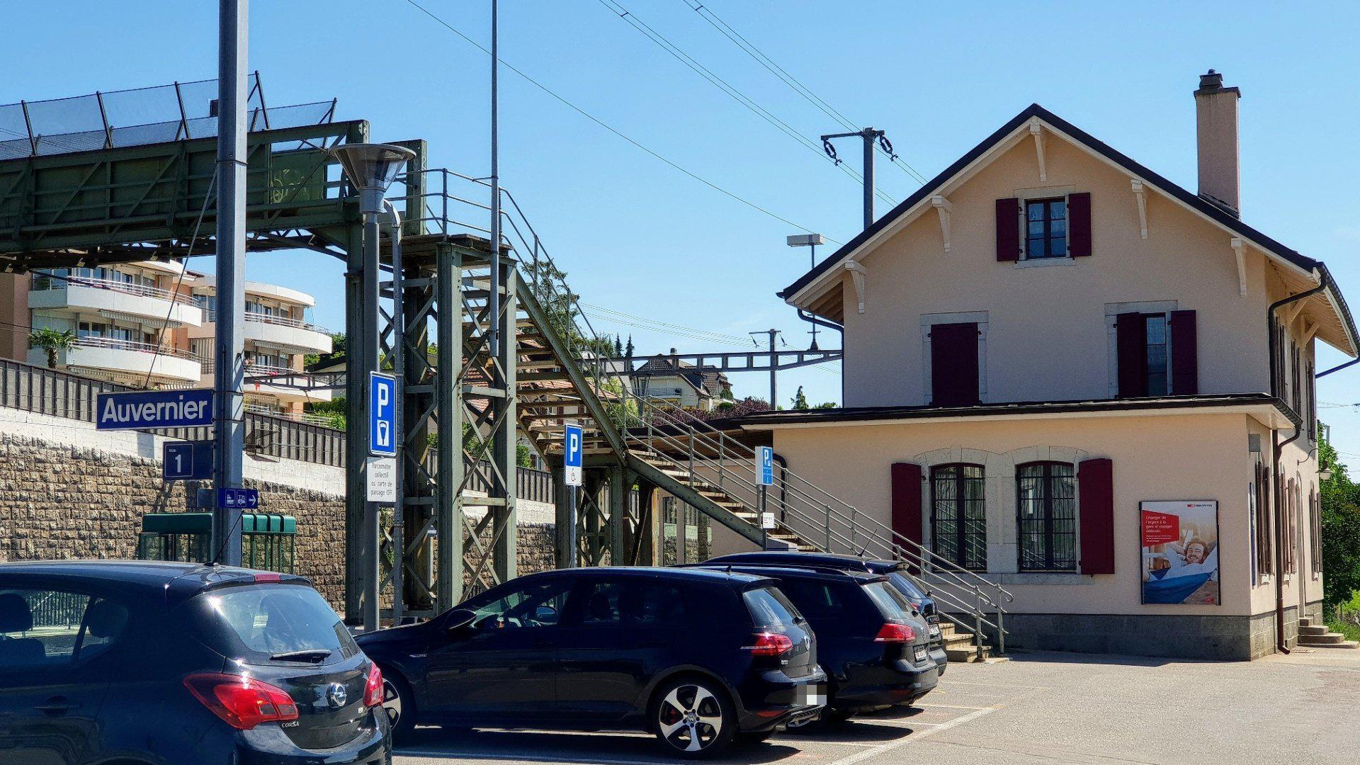 Auvernier railway station in Auvernier, Switzerland.